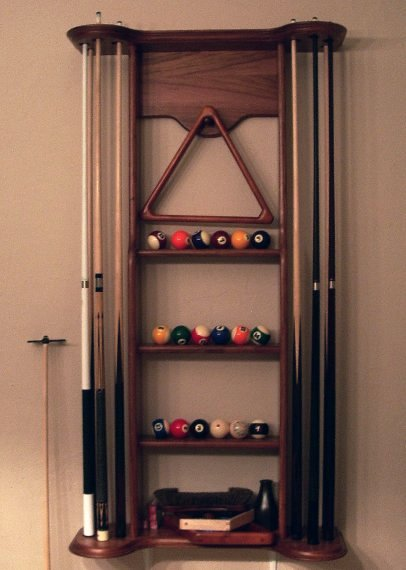 A typical wall-mounted rack for the storing of pool cues, billiard balls, game racks (a different sense of the term "rack"), and other pool equipment.